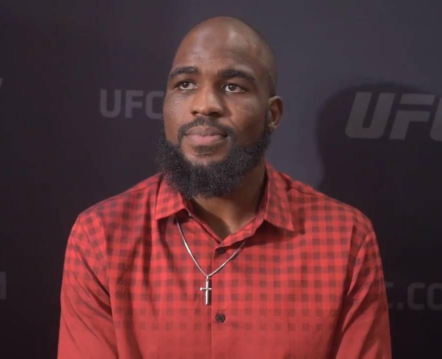 Corey Anderson explains how he plans to beat explosive prospect Johnny Walker on Saturday, and says he's open to welcome Alexander Gustafsson back to the octagon if "The Mauler" decides to come back from retirement. Check out the full pre-fight interview with Corey Anderson ahead of UFC 244 in Madison Square Garden!